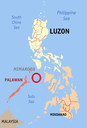 Cuyo_archipelago